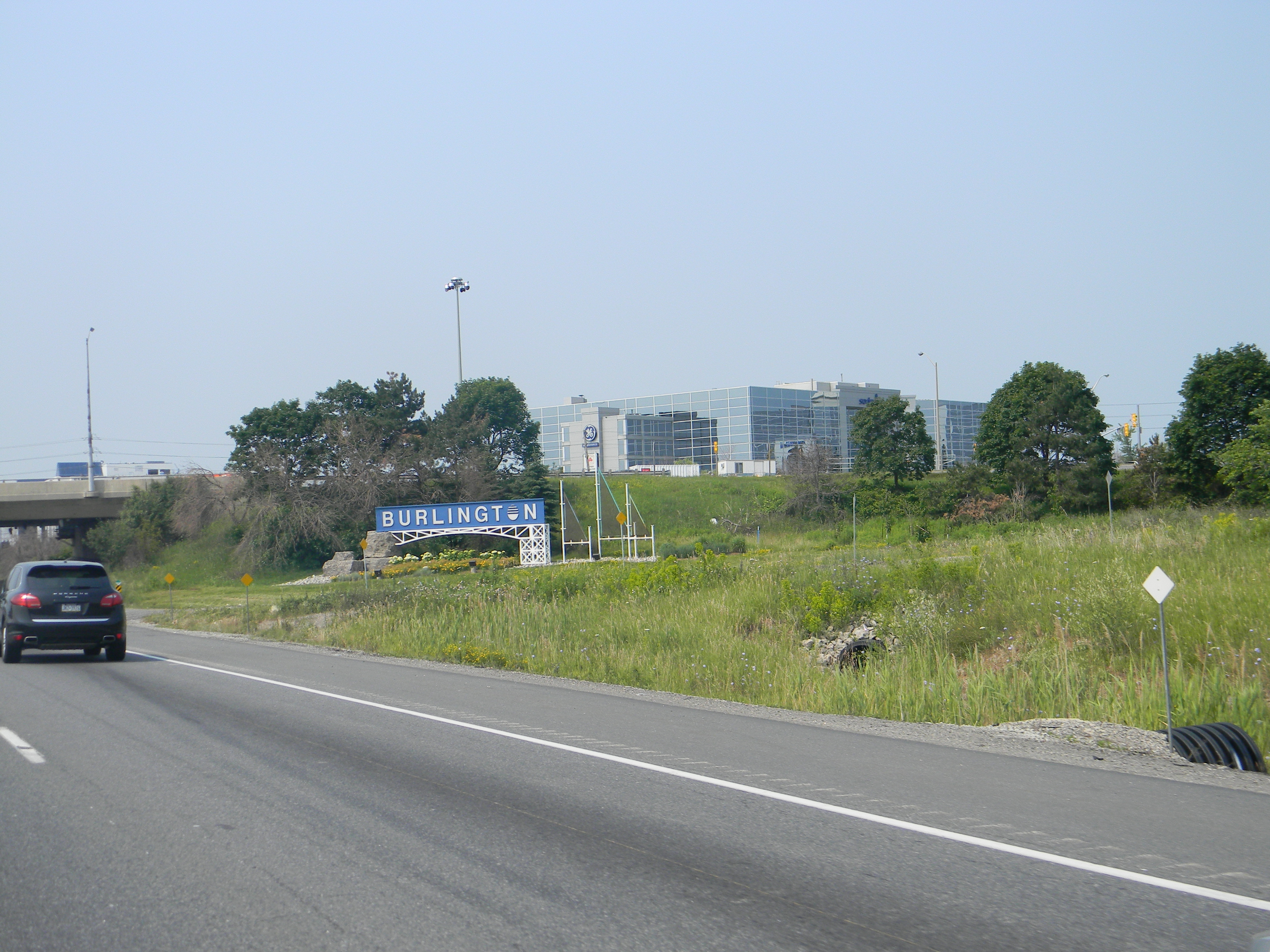 Burlington from Queen Elizabeth